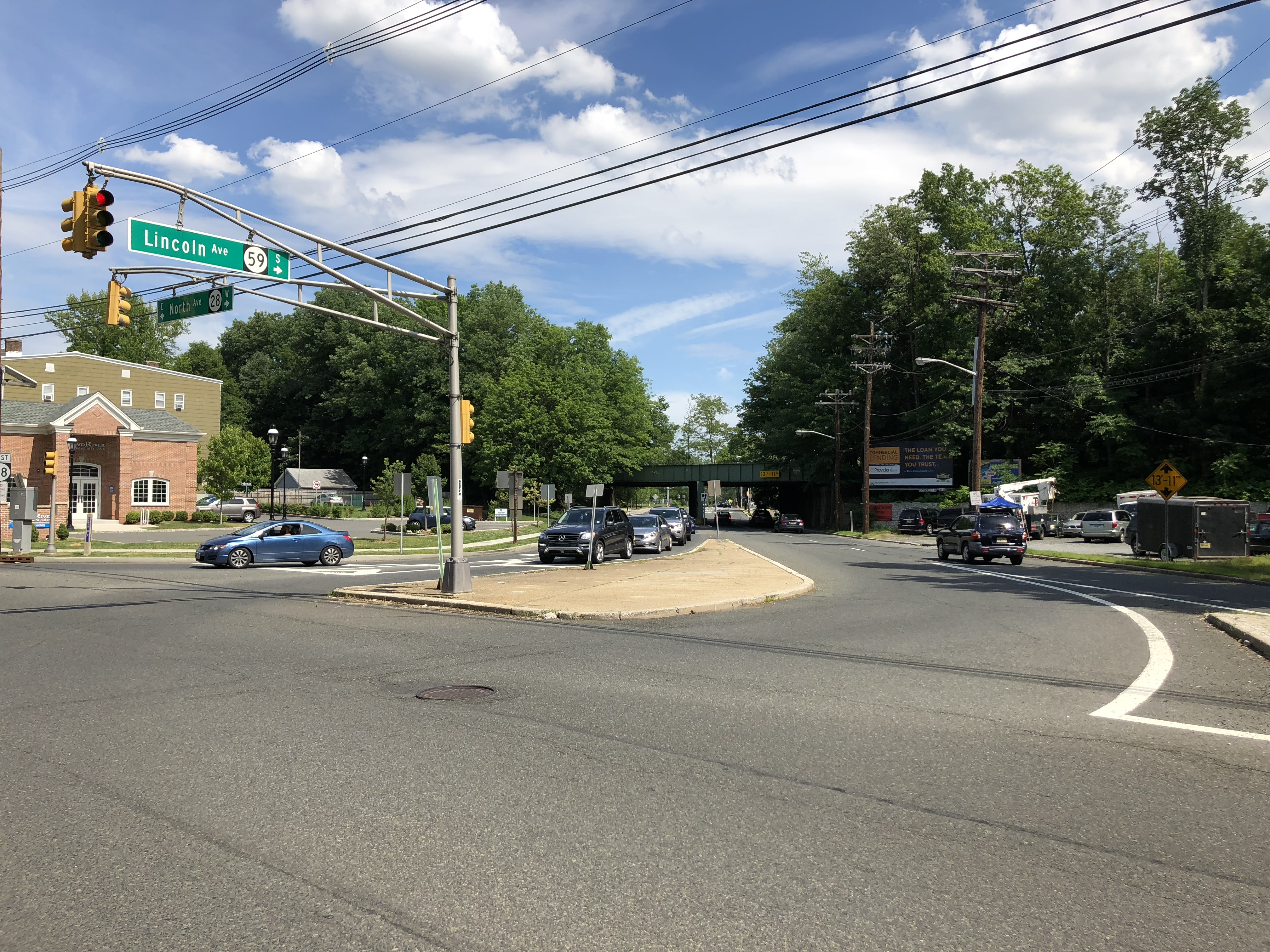 View south along New Jersey State Route 59 (Lincoln Avenue) at New Jersey State Route 28 (North Avenue) along the border of Garwood and Cranford Township in Union County, New Jersey